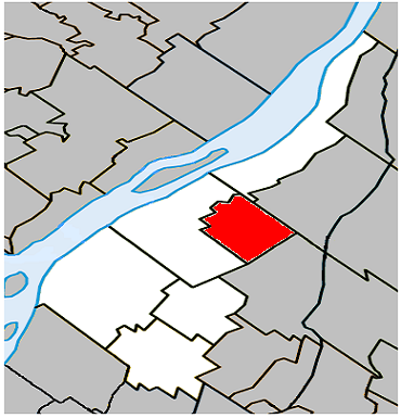 Location of Calixa-Lavallée, Quebec within Lajemmerais Regional County Municipality.